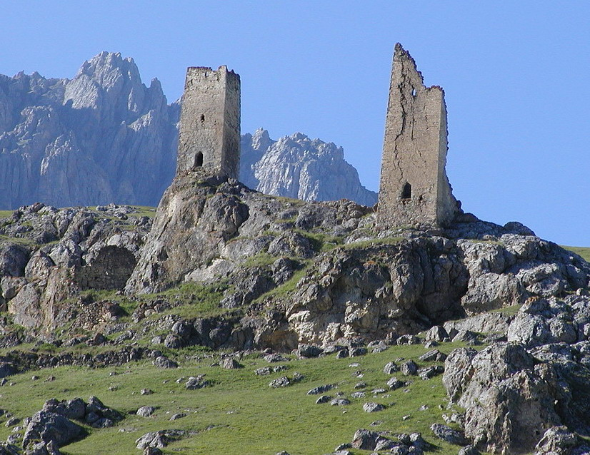 Ossetian towers in Fiagdon.